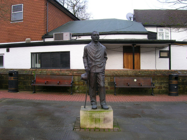 Sir Arthur Conan Doyle, Cloke's Corner The statue was erected in 2001 and sculpted by David Cornell. Conan Doyle is Crowborough's most famous resident having lived in the town from 1907 until his death in 1930. He faces towards Rotherfield as this was his favourite view.